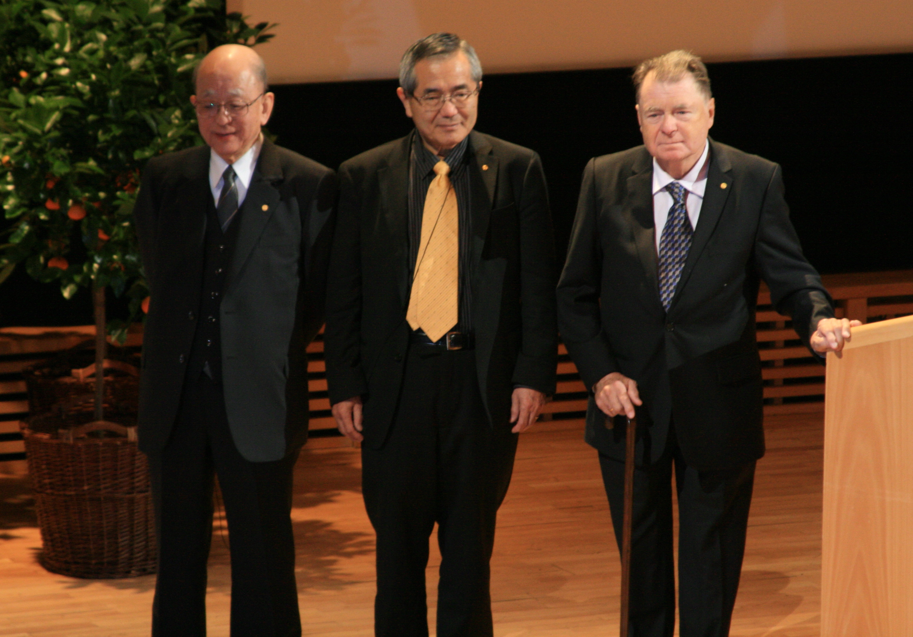 Laureates of the Nobel Prize for Chemistry 2010 - Akira Suzuki, Ei-ichi Negishi and Richard Fred Heck